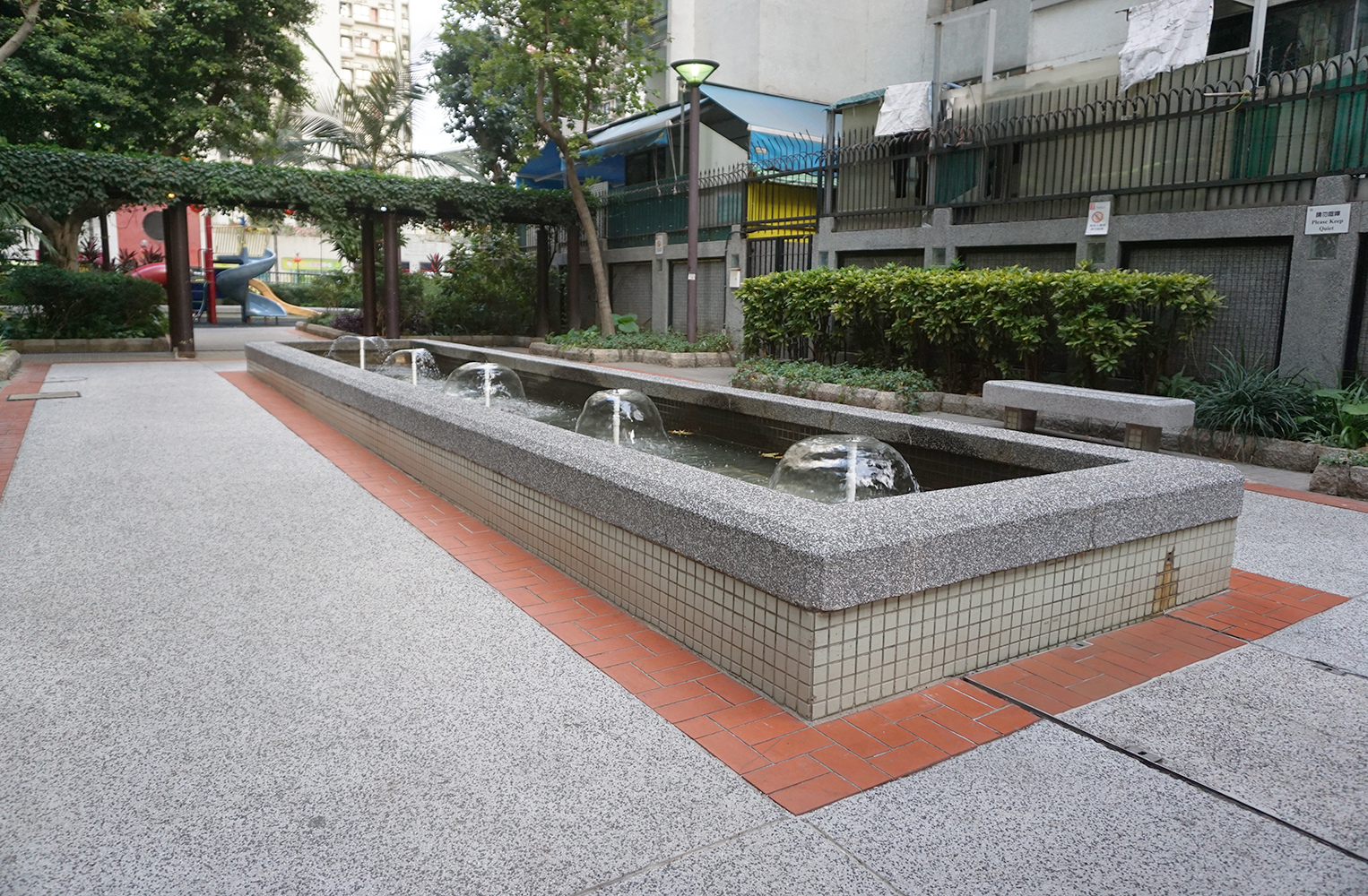 Tai Hing Gardens in Tuen Mun, Hong Kong.